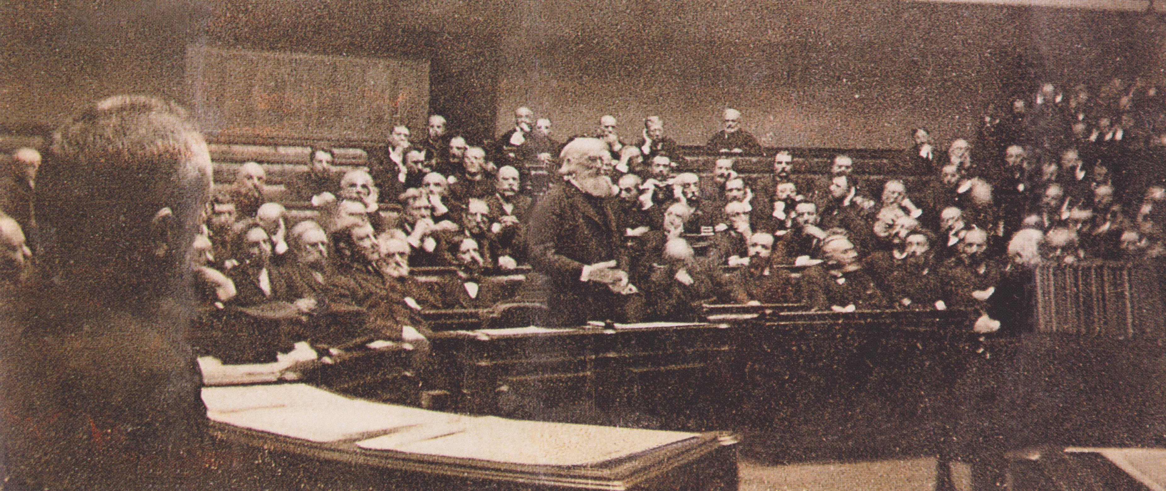 Prime Minister Kálmán Tisza announced the resignation of the government in March 1890. Beside him Sándor Wekerle sits.